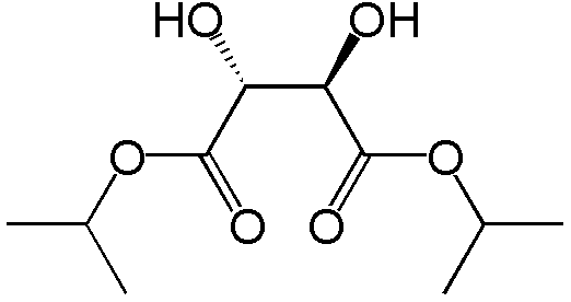 chemical structure of diisopropyl tartrate